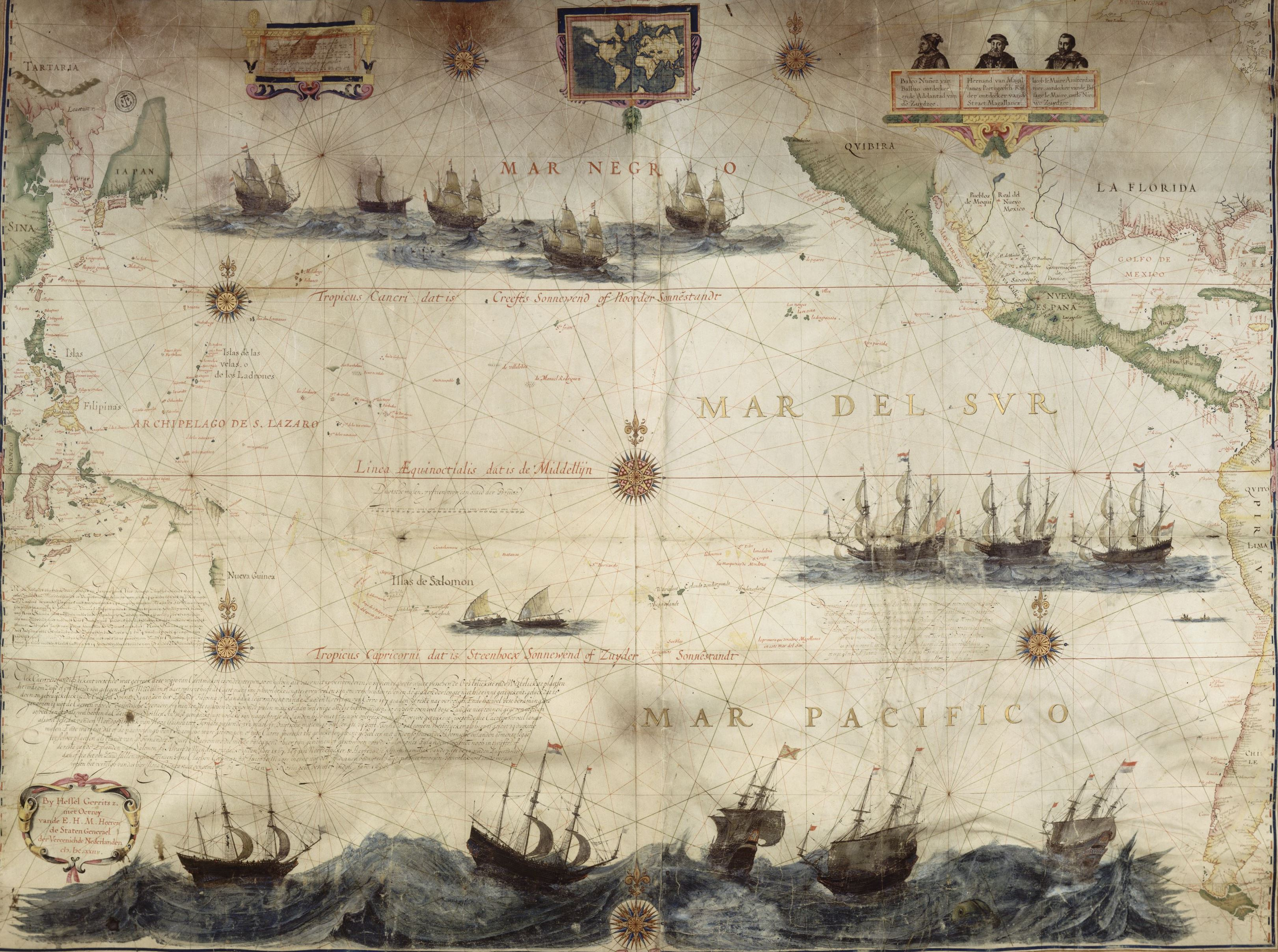 Hessel Gerritsz, Mar del Sur, Mar Pacifico, Map of the Pacific, 1622